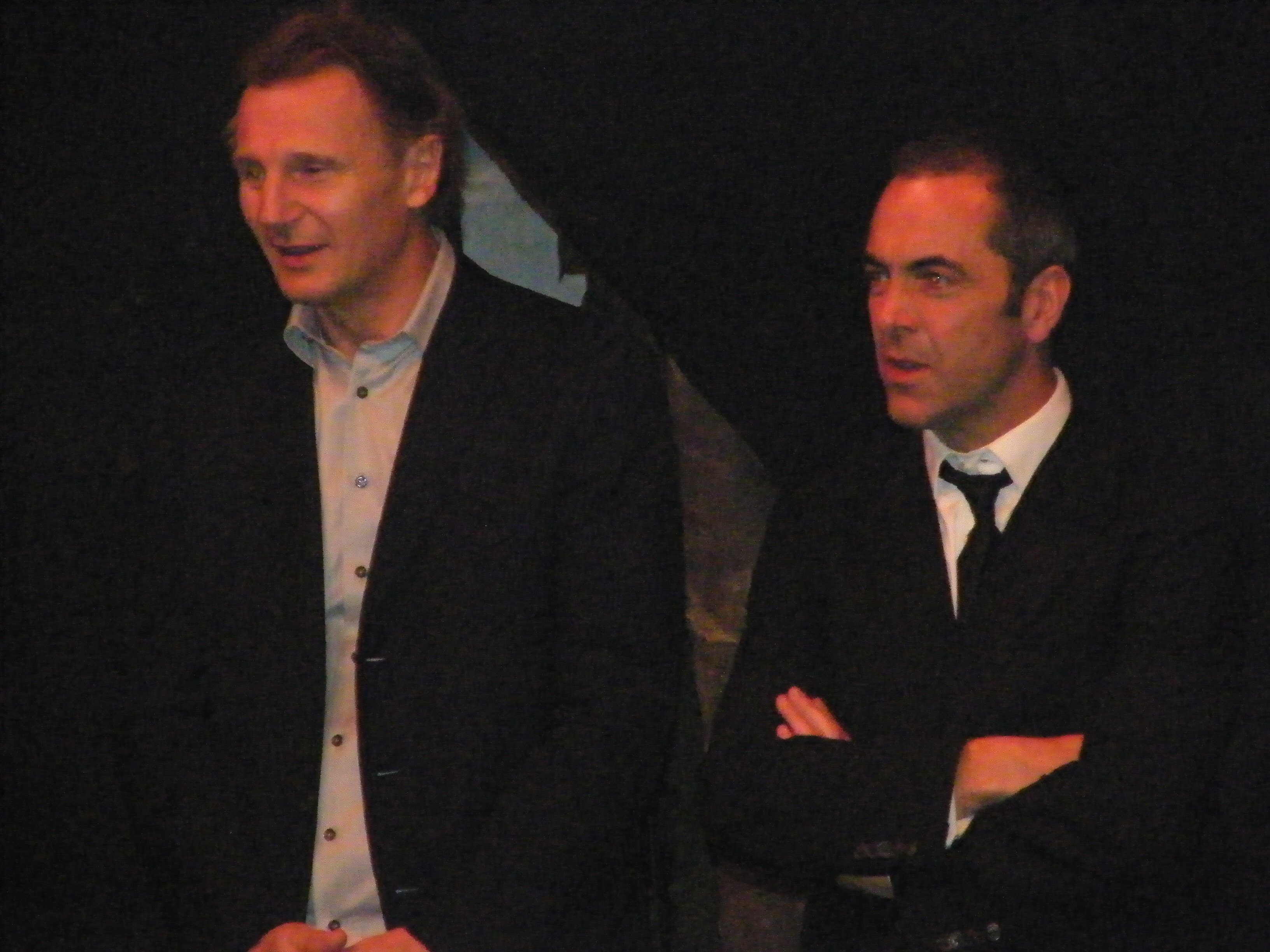 Liam Neeson and James Nesbitt at the closing of the Lyric Theatre Belfast.